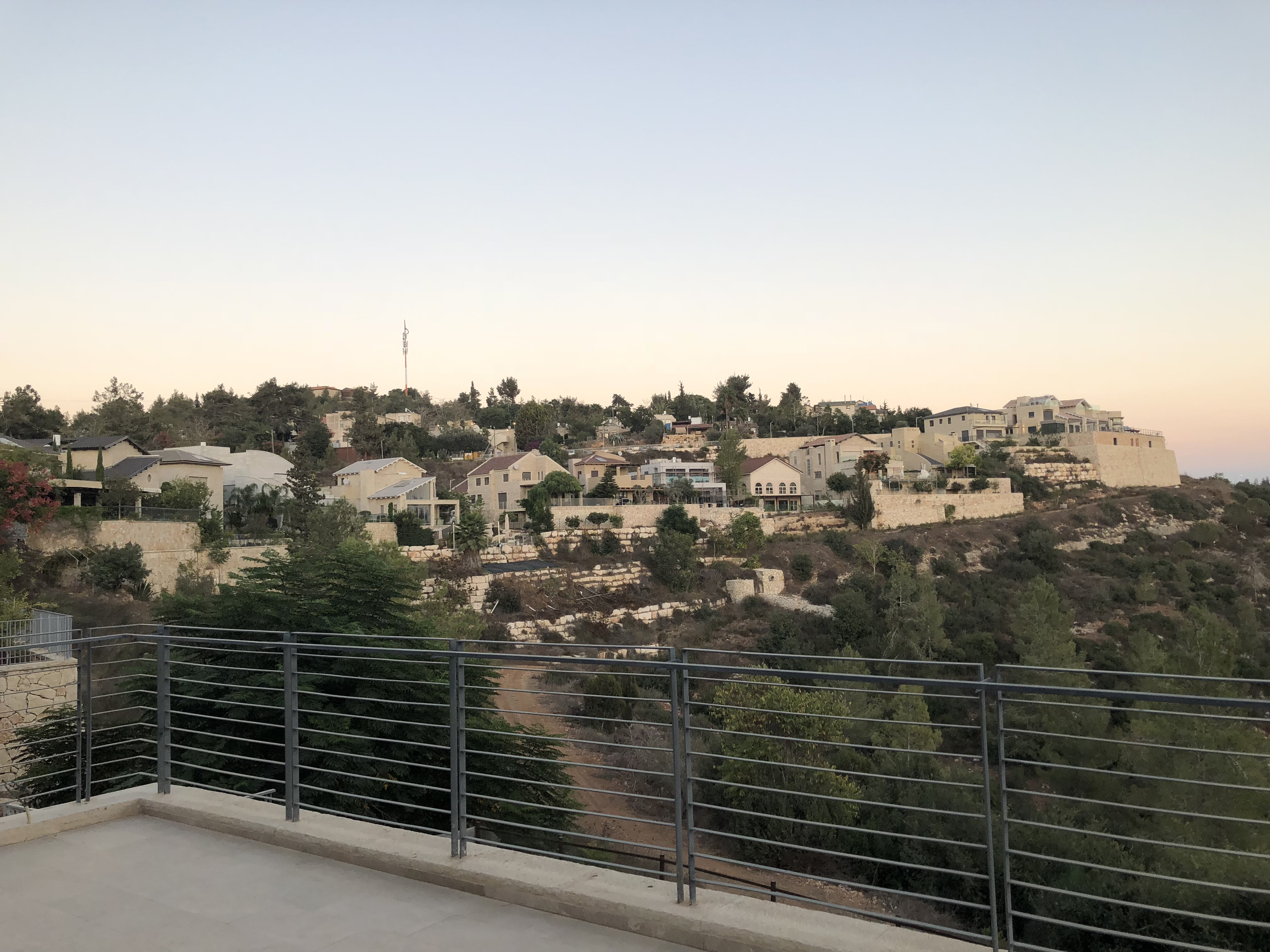 Neve ilan at 2018